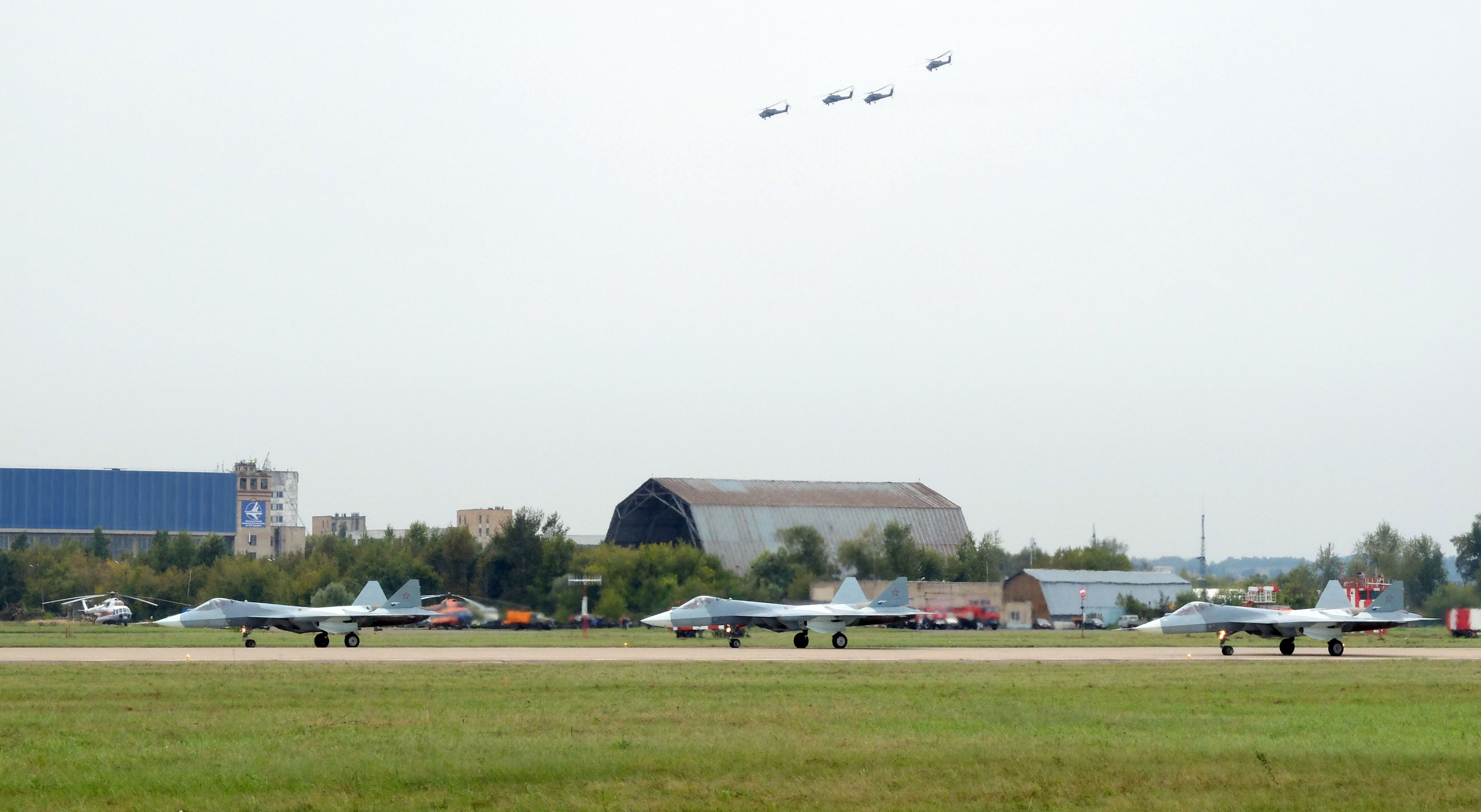 Three PAK FA fifth-generation jet fighter aircrafts. On background seen pilotage tem "Berkuti" on Mil Mi-28, all-weather, day-night, military tandem, two-seat anti-armor attack helicopter